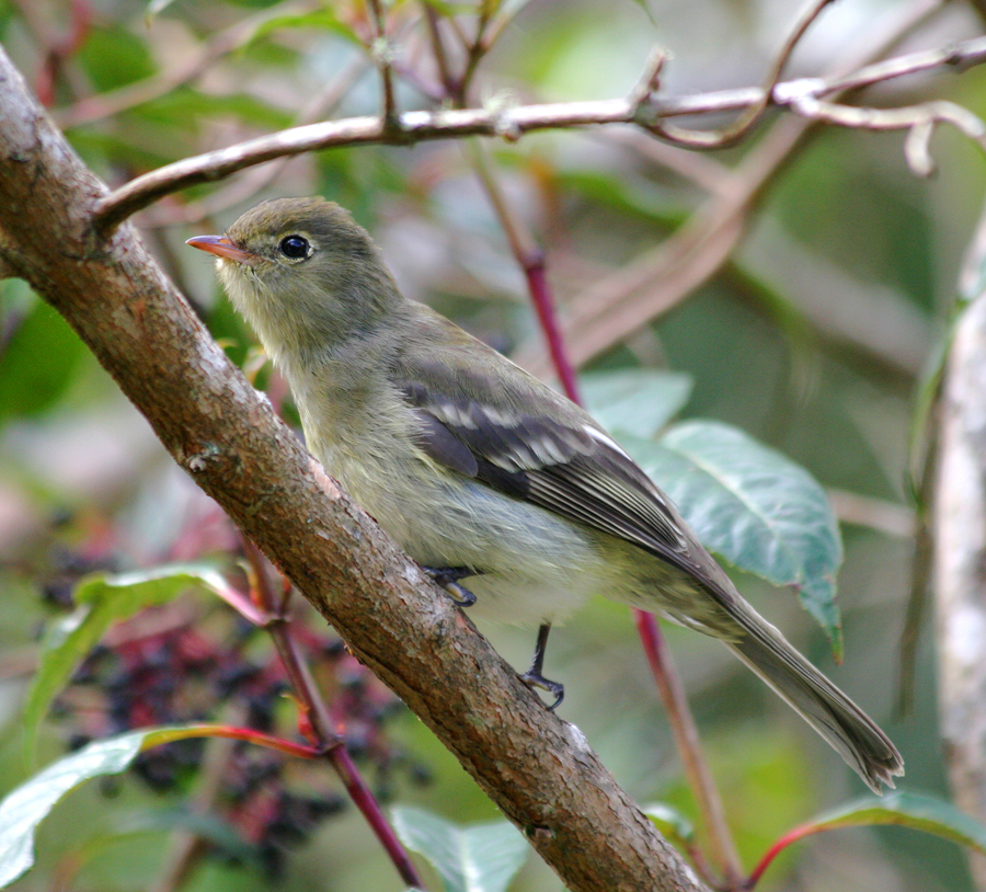 Mountain Elaenia photo taken at the Saverge Mountain Hotel, Costa Rica.